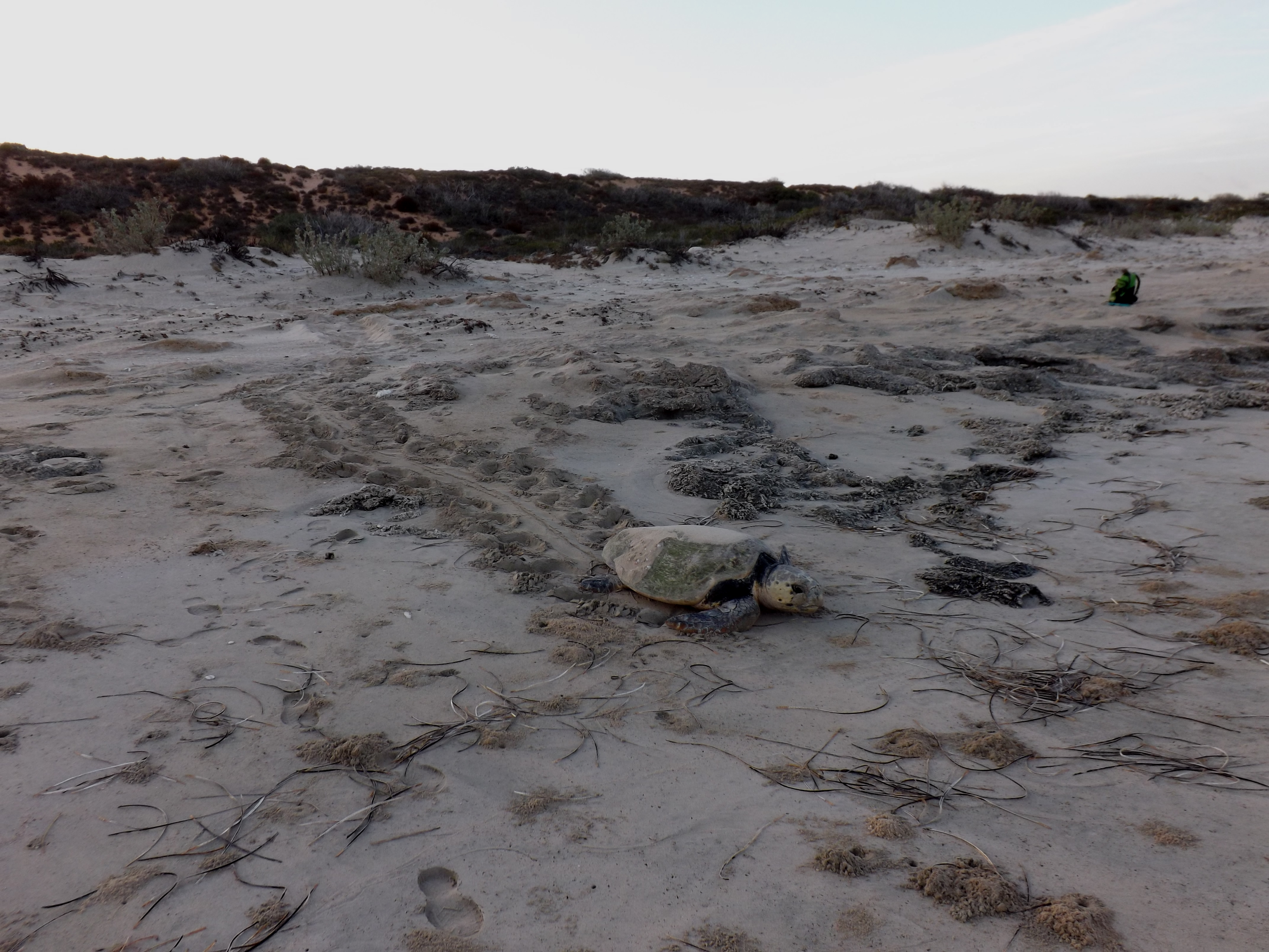 Loggerhead returning to sea after nesting